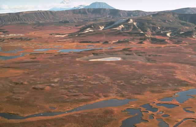 The Uzon and Geyzernaya calderas, containing Kamchatka's largest geothermal area, form a 7 x 18 km depression that originated during the mid-Pleistocene. Sharp-peaked Kronotsky volcano and flat-topped Krasheninnikov volcano appear in the distance beyond the north caldera rim.